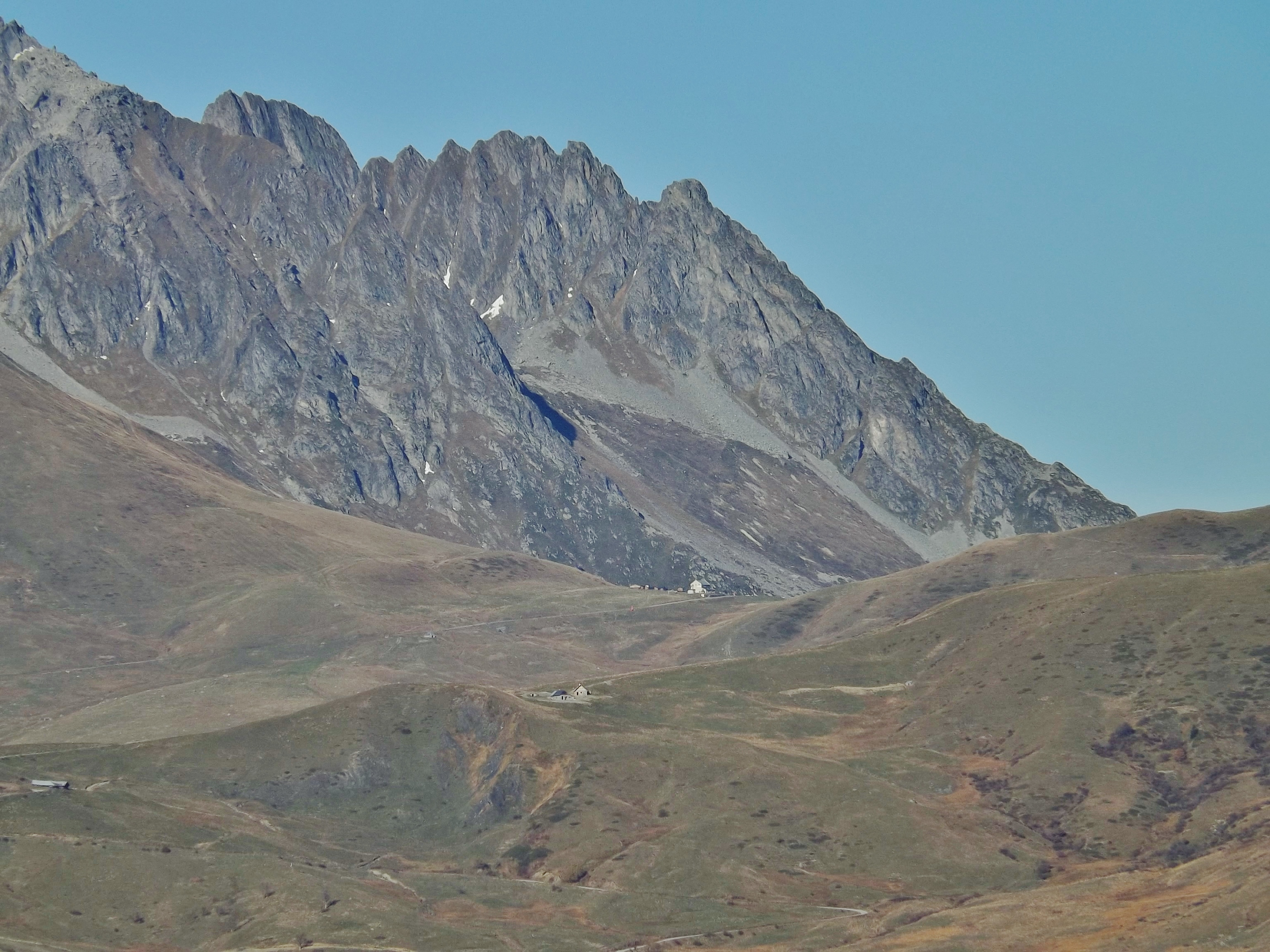 Panoramic sight, from the heights of Montpascal, of the col de la Madeleine pass (2,000 meters high), between the Maurienne (left) and Tarentaise (right) valleys, in Savoie.